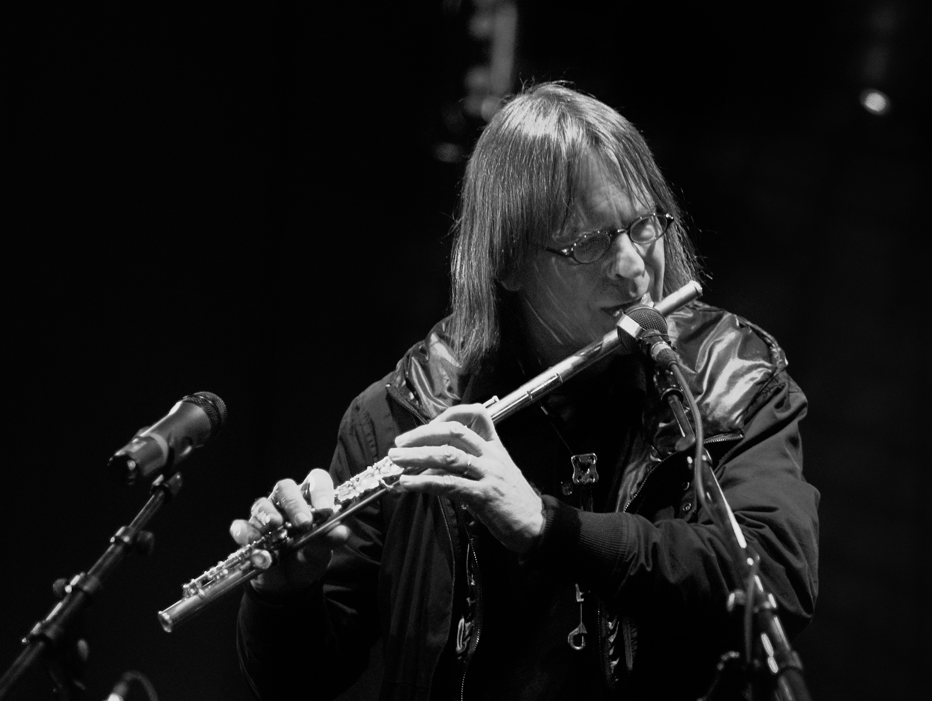 Heiner Wiberny live at Aachen September Special